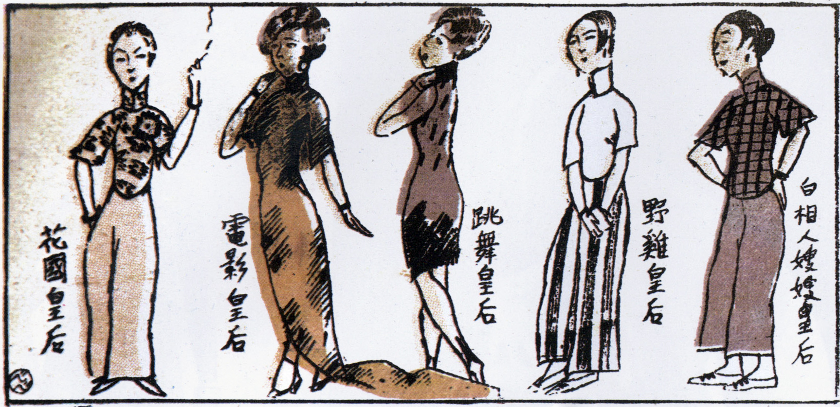 "Recent Empresses.", from Shanghai Manhua issue 15 (July 29, 1928), page 5. Left to right: empresses of Shanghai's brothel district, movies, dance hall girls, prostitutes, and of the wives of physiognomists